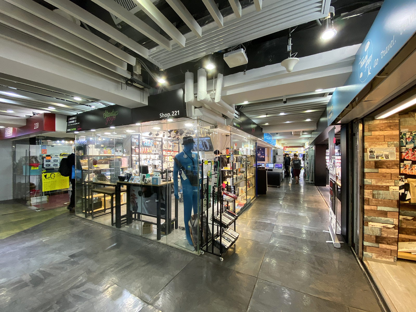 Mong Kok Computer Centre Level 2